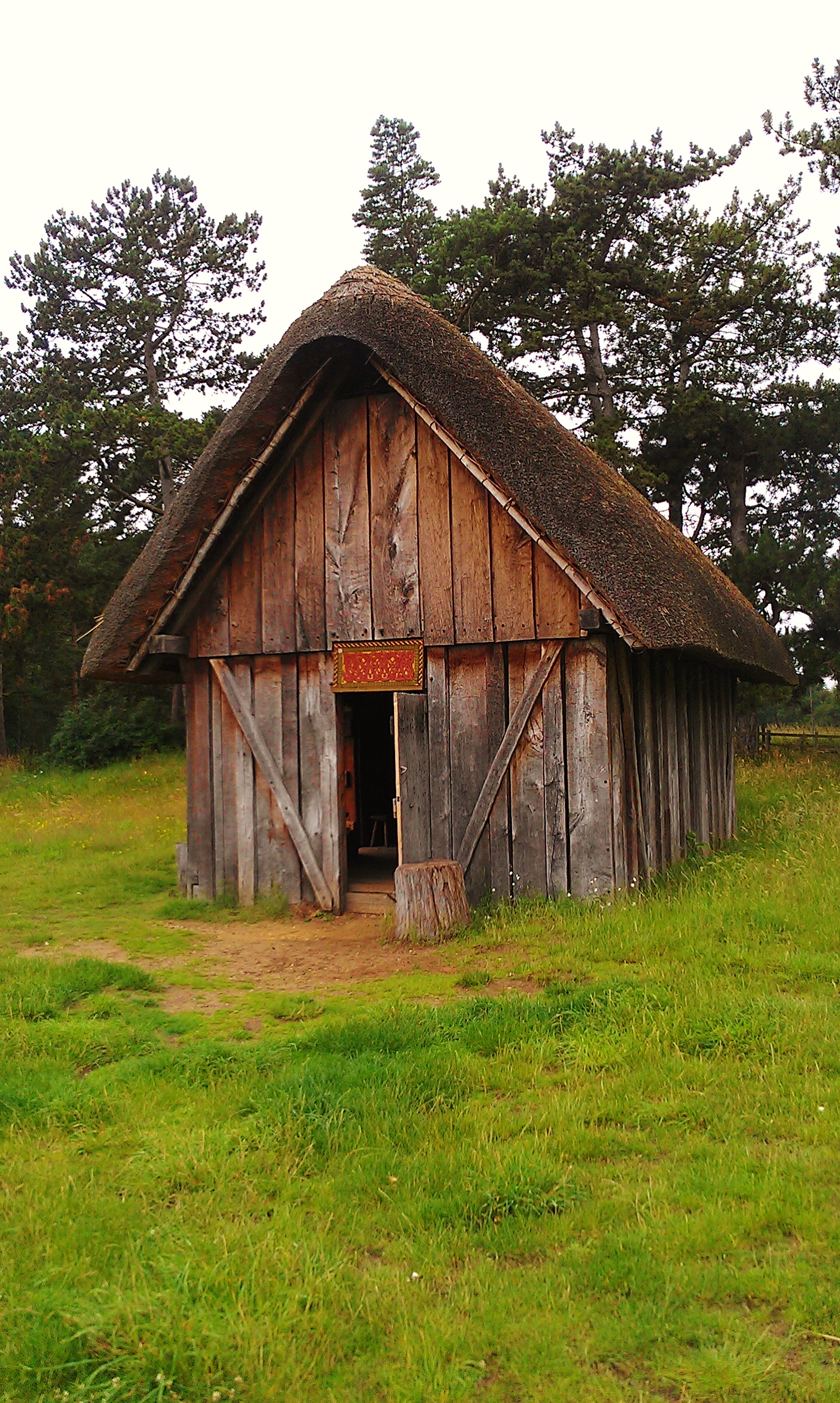 Building in the West Stow Anglo-Saxon village, constructed in the style of buildings from Anglo-Saxon England.